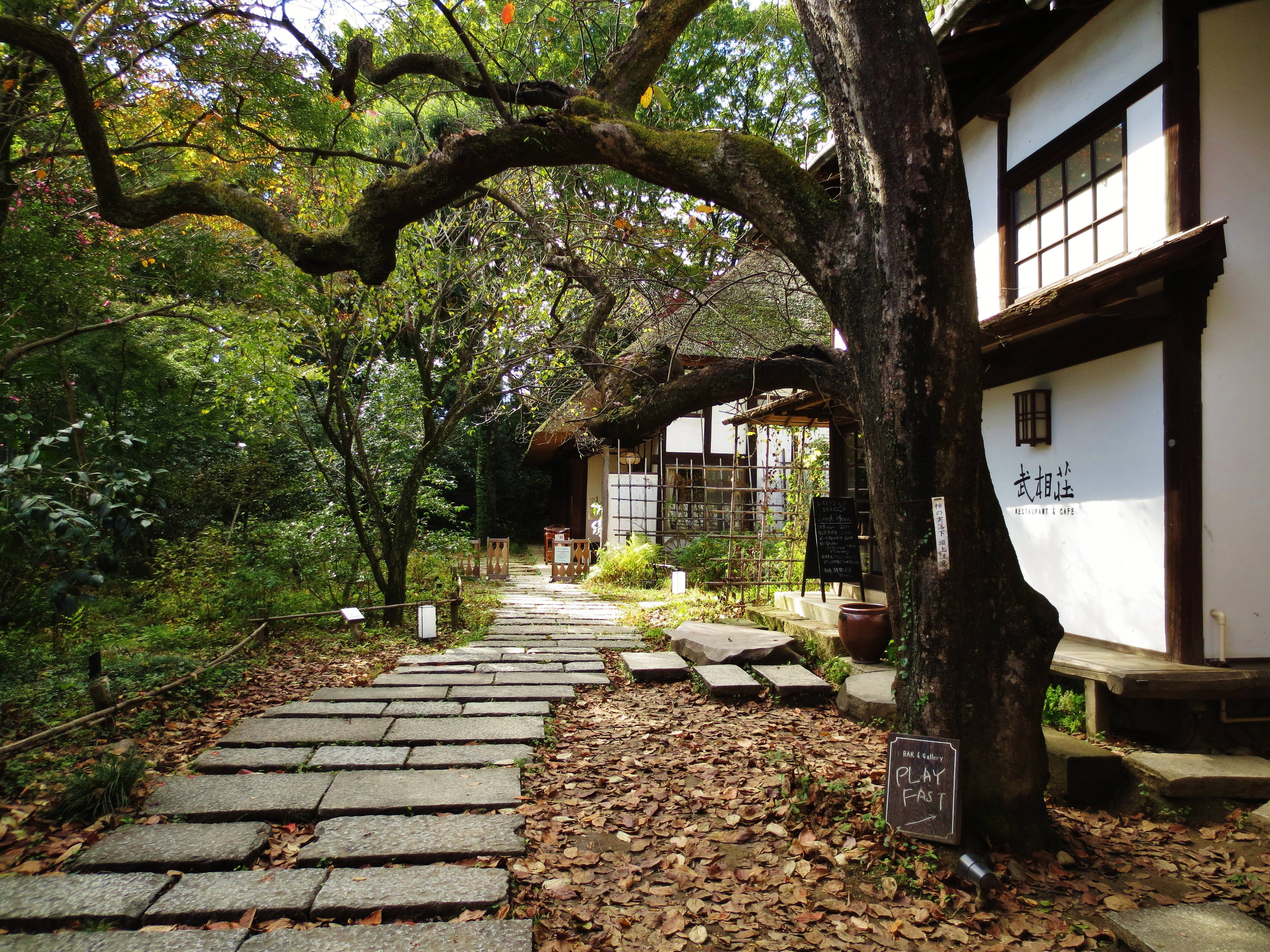 Buaisō.